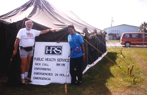 Image Number MDH0198 Year 1992 Date Note Photographed in November 1992. Series Title General: Miami Dade County Health Department collection Accompanying note: "On August 24, 1992, Hurricane Andrew struck southern Florida. An estimated 180,000 persons were left homeless; insured damages were estimated at $15.5 billion and total damages at more than $30 billion. During November 3-13, to help prioritize health needs and direct public health resources, the Dade County Public Health Unit of the Florida Department of Health and Rehabilitative Services conducted a survey to assess health needs and the availability of health-care services during the recovery phase with funds provided by the Federal Emergency Management Agency (FEMA)."